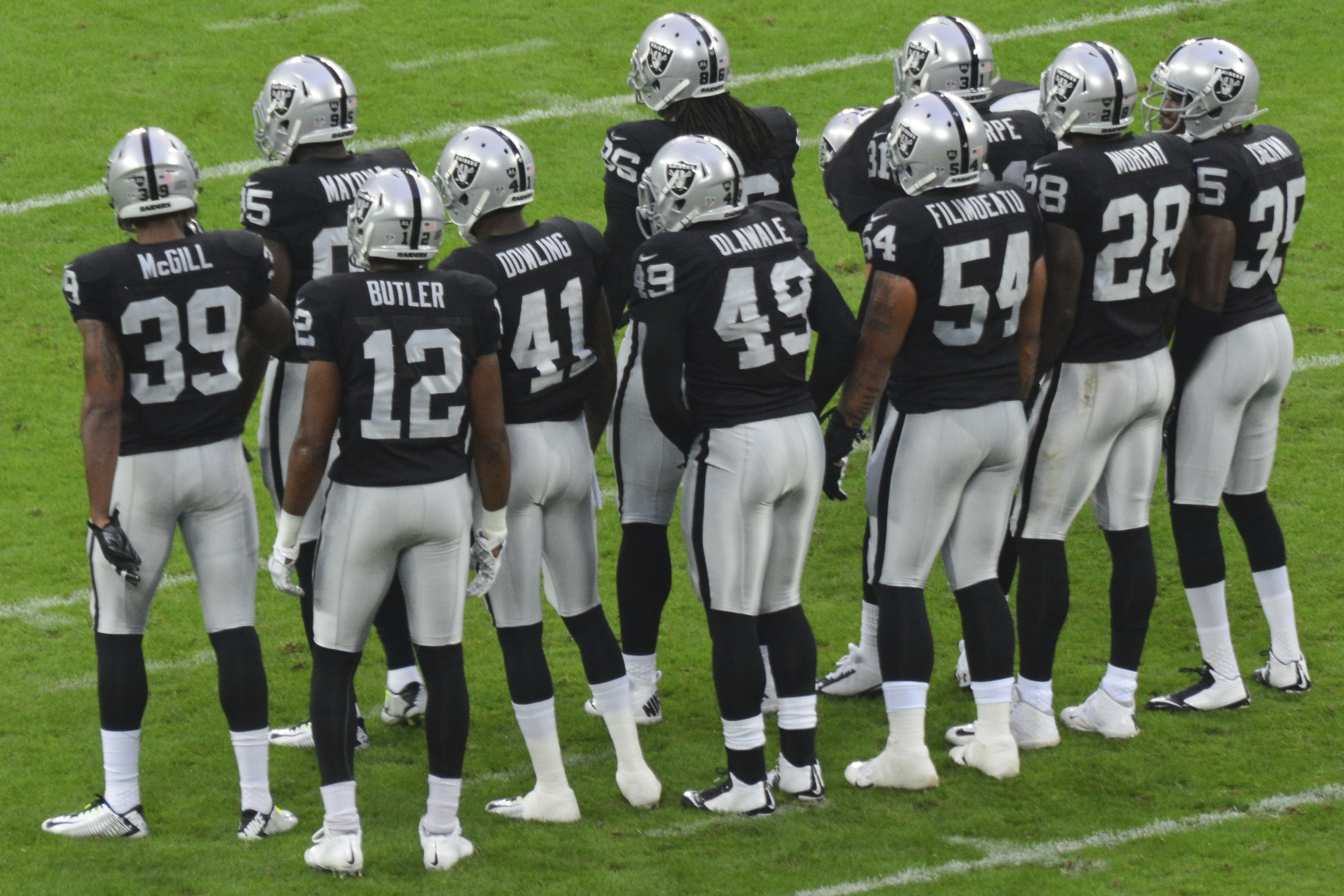 Raiders vs. Dolphins